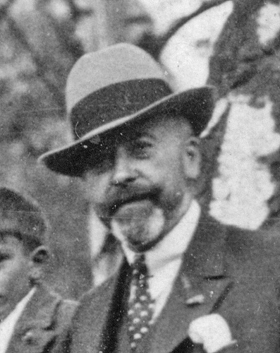 Photograph of Nestor Cambier taken in 1930 for article of that name.